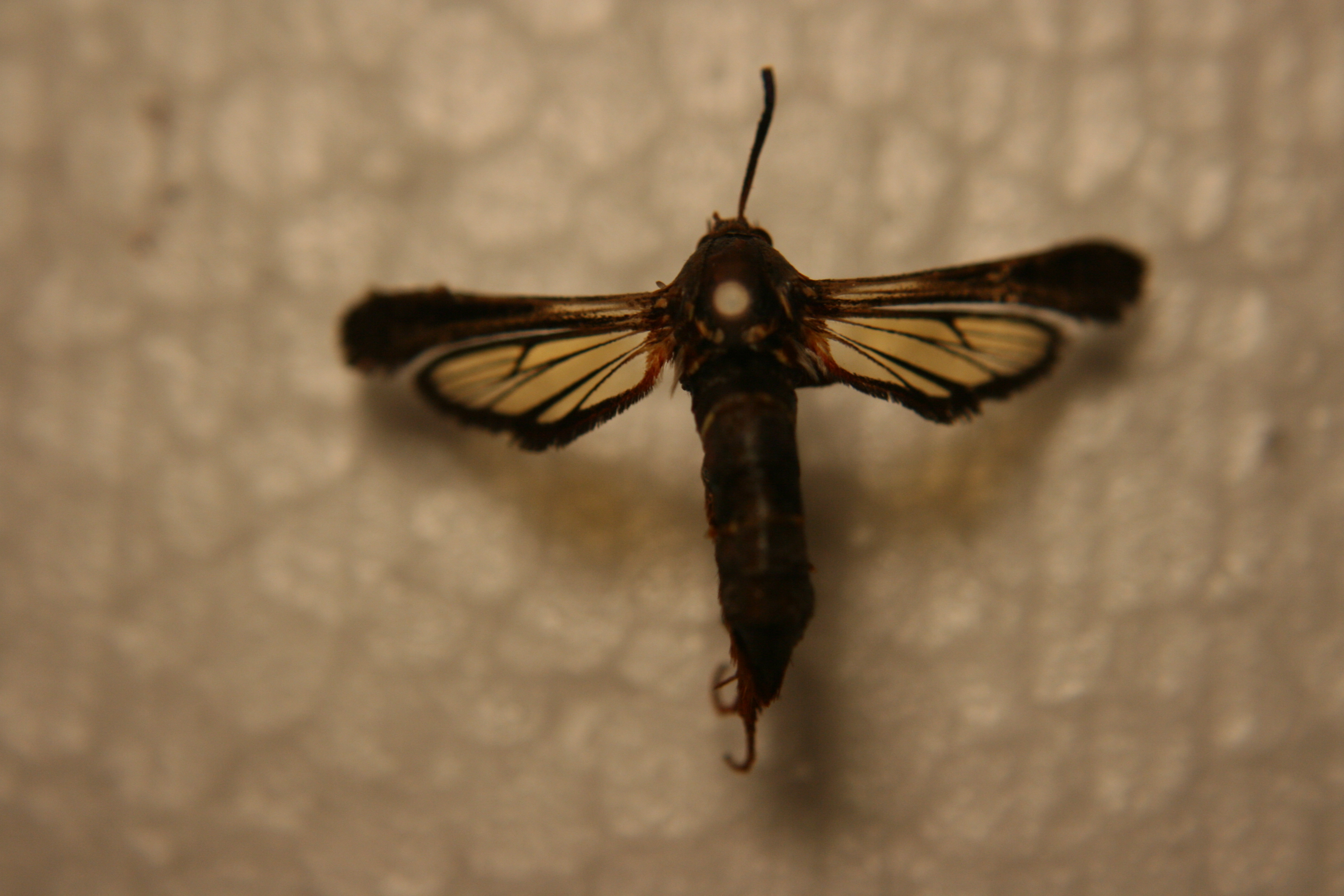 A Paranthrene dollii in the Hough collection, caught July 29th, 2007.